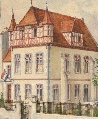 House of the K.St.V. Arminia aquarell of 1900 published on postal cards since 1900 and in the book: KStV Arminia 1863-1988, Bonn 1988